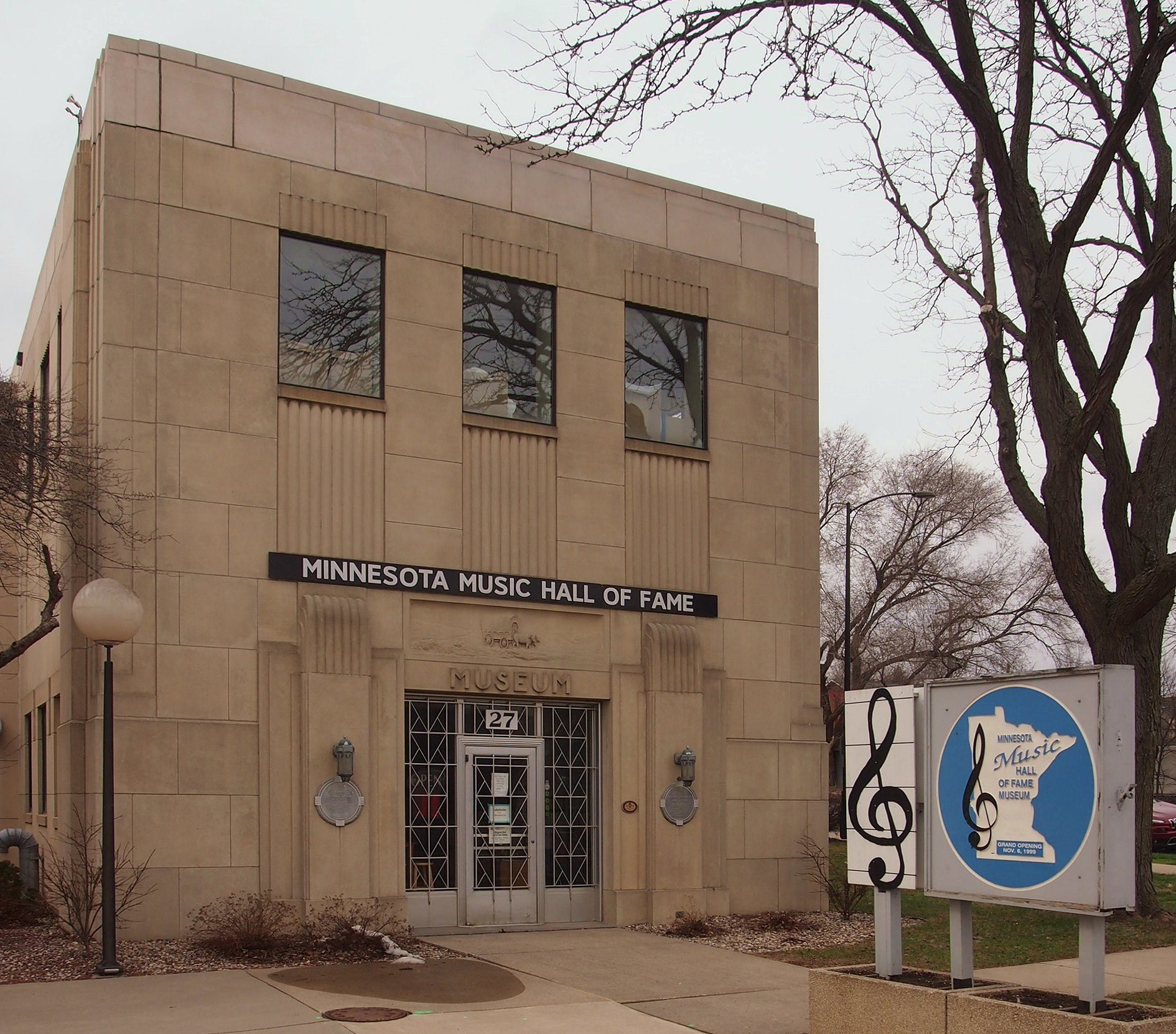 Minnesota Music Hall of Fame, 27 N Broadway St, New Ulm, Minnesota, USA. Viewed from the east.